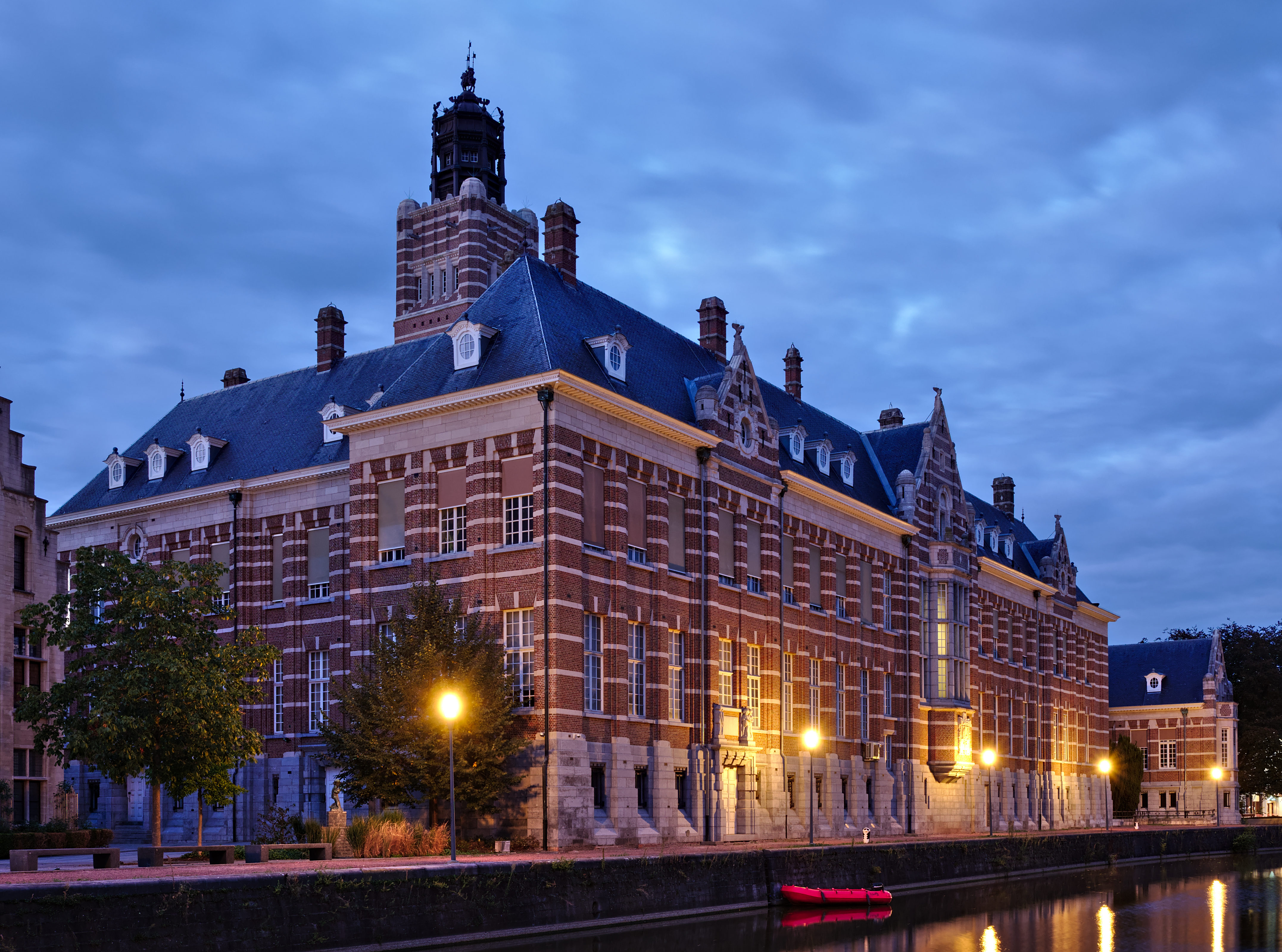 SE corner of the Dendermonde courthouse during civil twilight This photo of immovable heritage has been taken in the Flemish Region